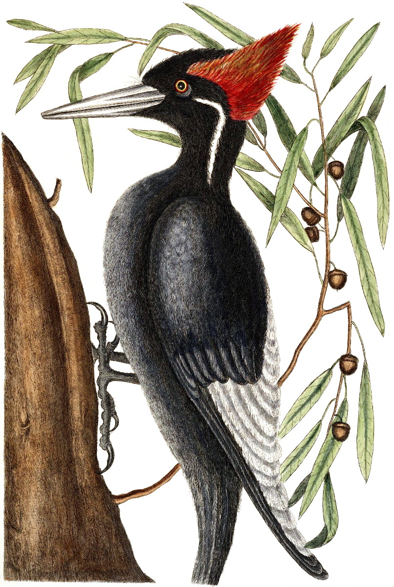 Ivory-billed Woodpecker, Campephilus principalis on Water Oak, Quercus phellos. Hand-colored engraving. Original caption (cropped off here) reads: Picus Maximus rostro albo: The largest white-bill Wood-pecker; Quercus, an potius Ilex Marilandica folio longo angusto Salicis. Ray Hist: The Willow-Oak